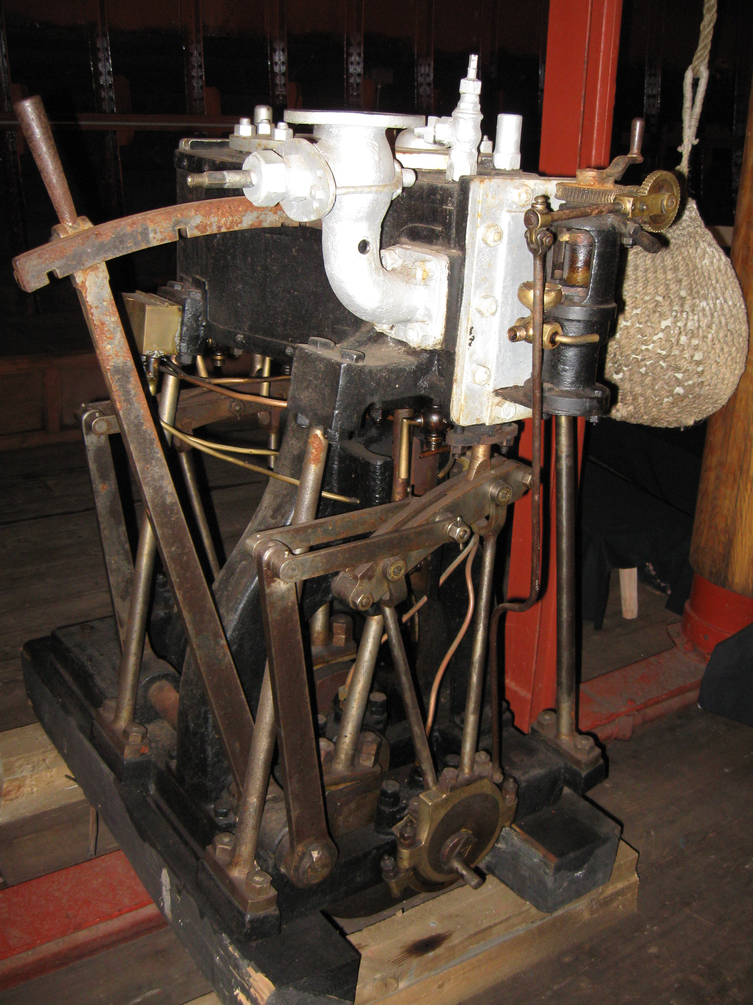 A compound type steam ship engine displayed at the museum ship S/S Mikko in Savonlinna, Finland